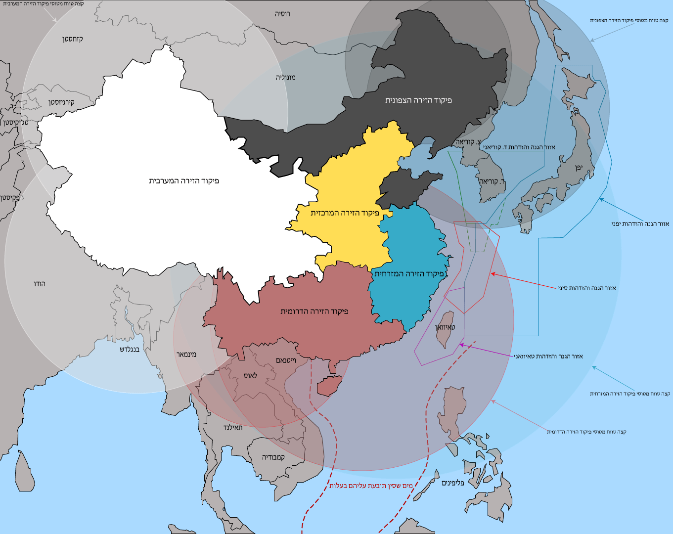 Map that shows the Theater commands and estimated ranges of the PLAAF in each command.